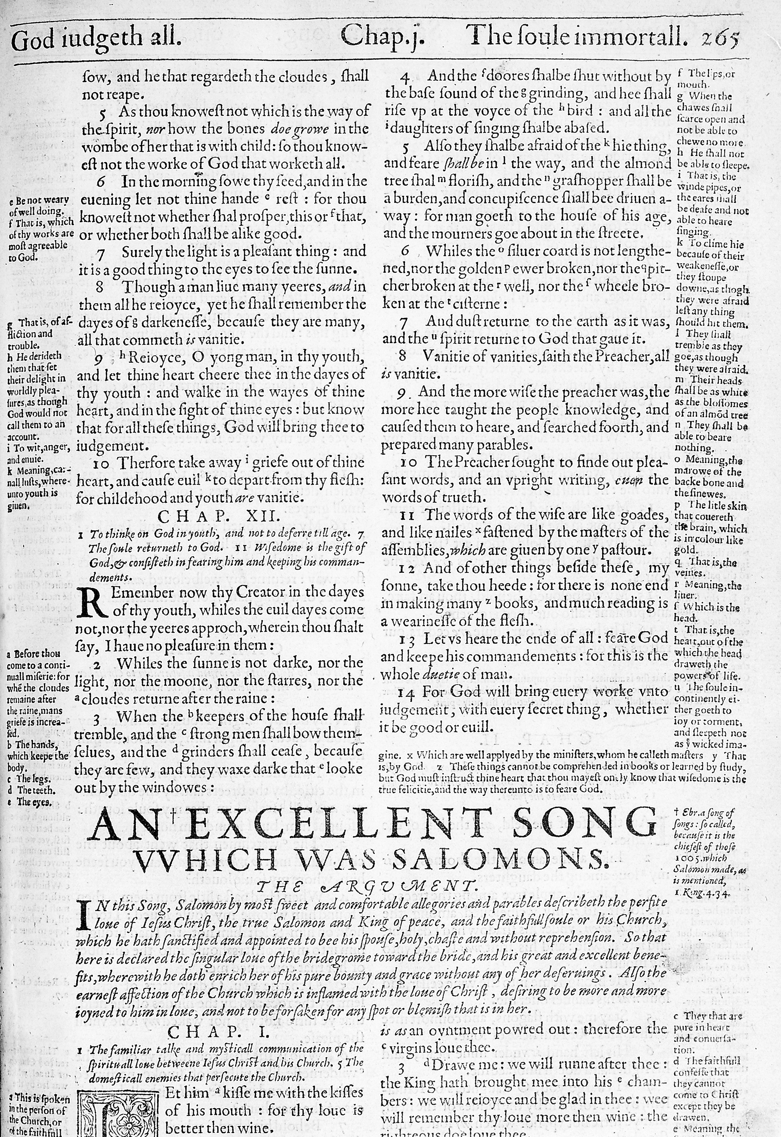 Ecclesiastes, chapter XII, on old age. From a family Bible, bound with the Book of Common Prayer, 1607. Rare Books Keywords: gerontology; Geriatrics